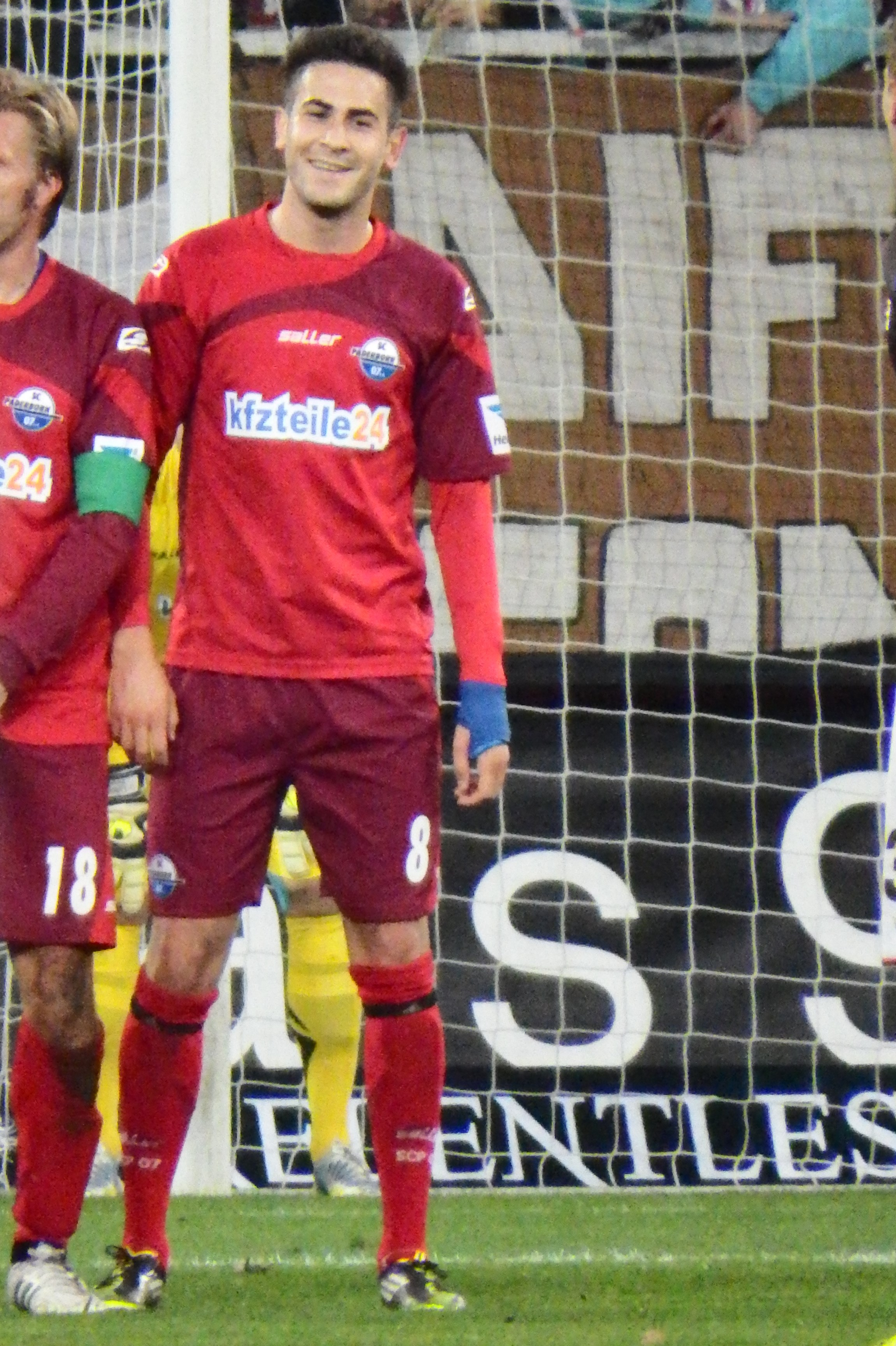 Mario Vrančić as Player of SC Paderborn